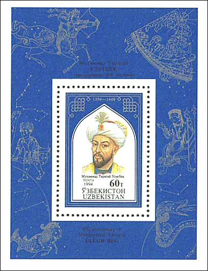 Uzbekistan 1994. Souvenir sheet. 600th birth anniversary of Ulugh Beg, Tamerlane's grandson.